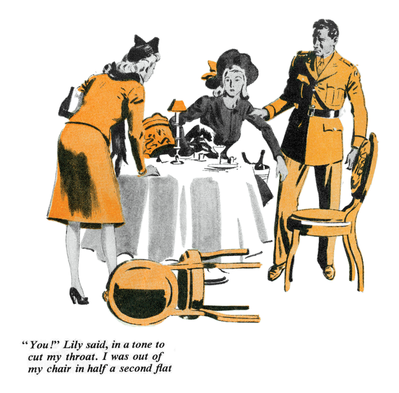 Illustration for "Not Quite Dead Enough", a Nero Wolfe novella by Rex Stout that first appeared in The American Magazine